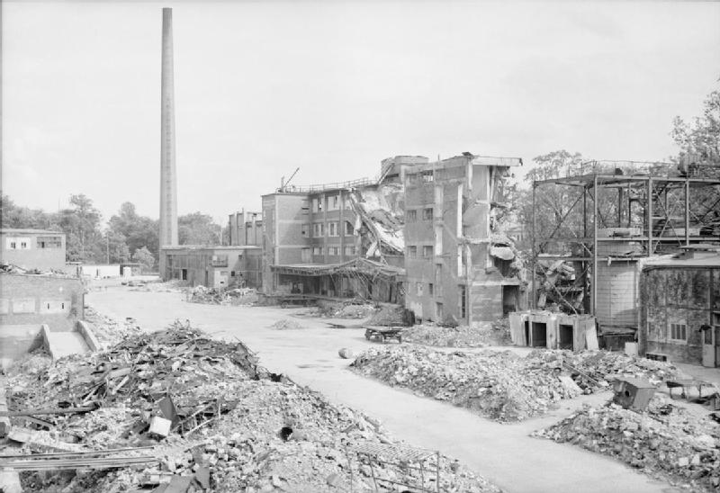 Royal Air Force Bomber Command, 1942-1945. The Siemens factory at Siemensstadt, Berlin, badly damaged as a result of raids by aircraft of Bomber Command.